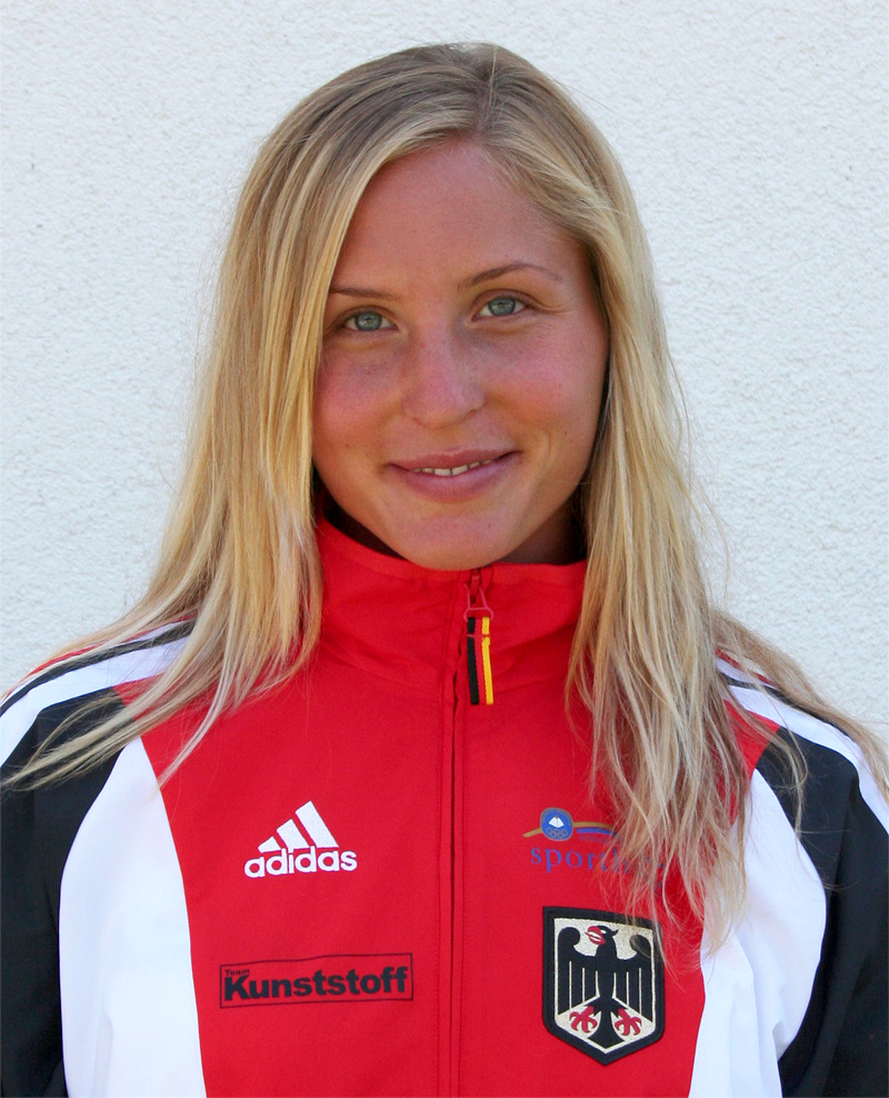 Carolin Leonhardt Olympic Champion Canoe Sprint